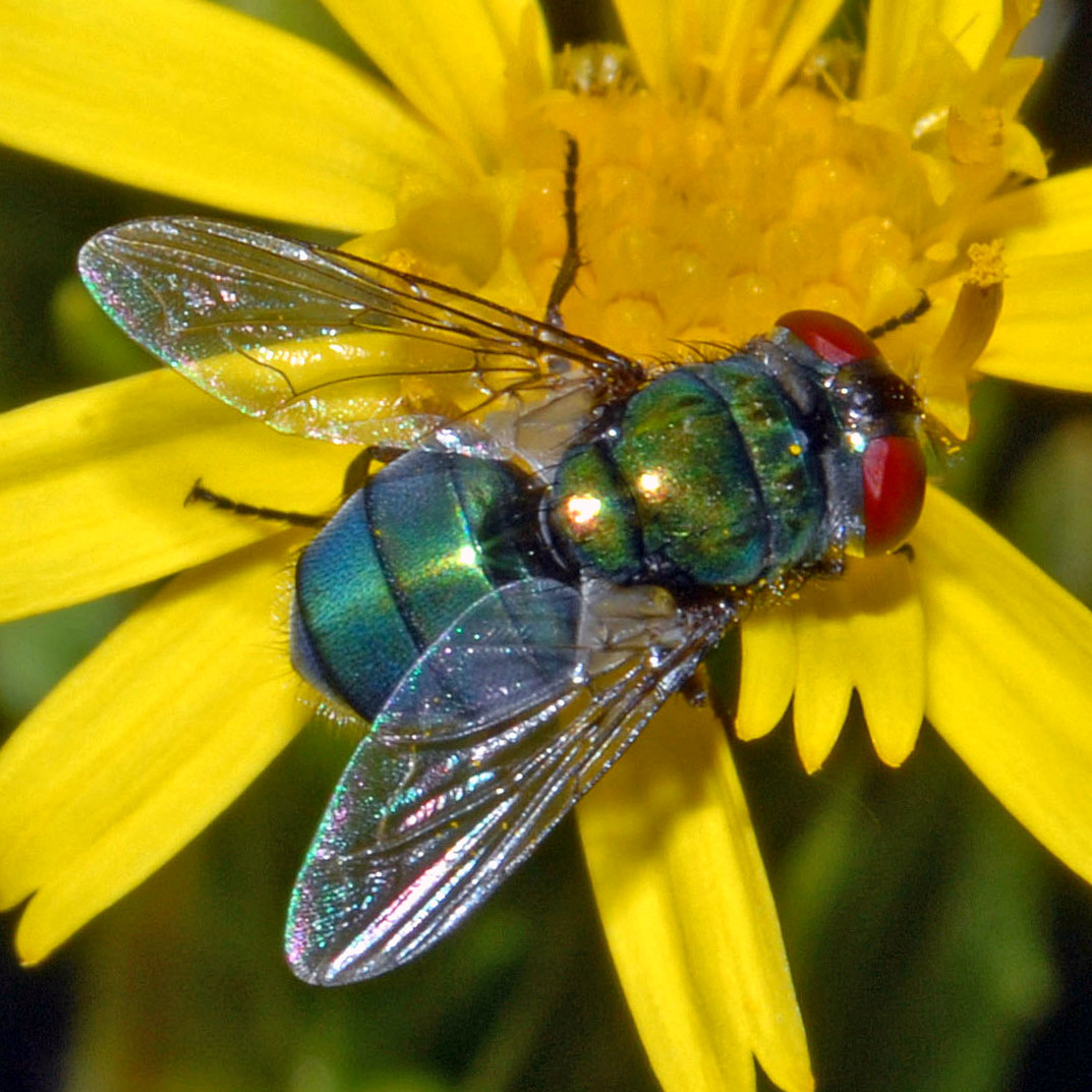 Chrysomya albiceps. Female feeding on a flower of Dittrichia viscosa. Arquata, Italy